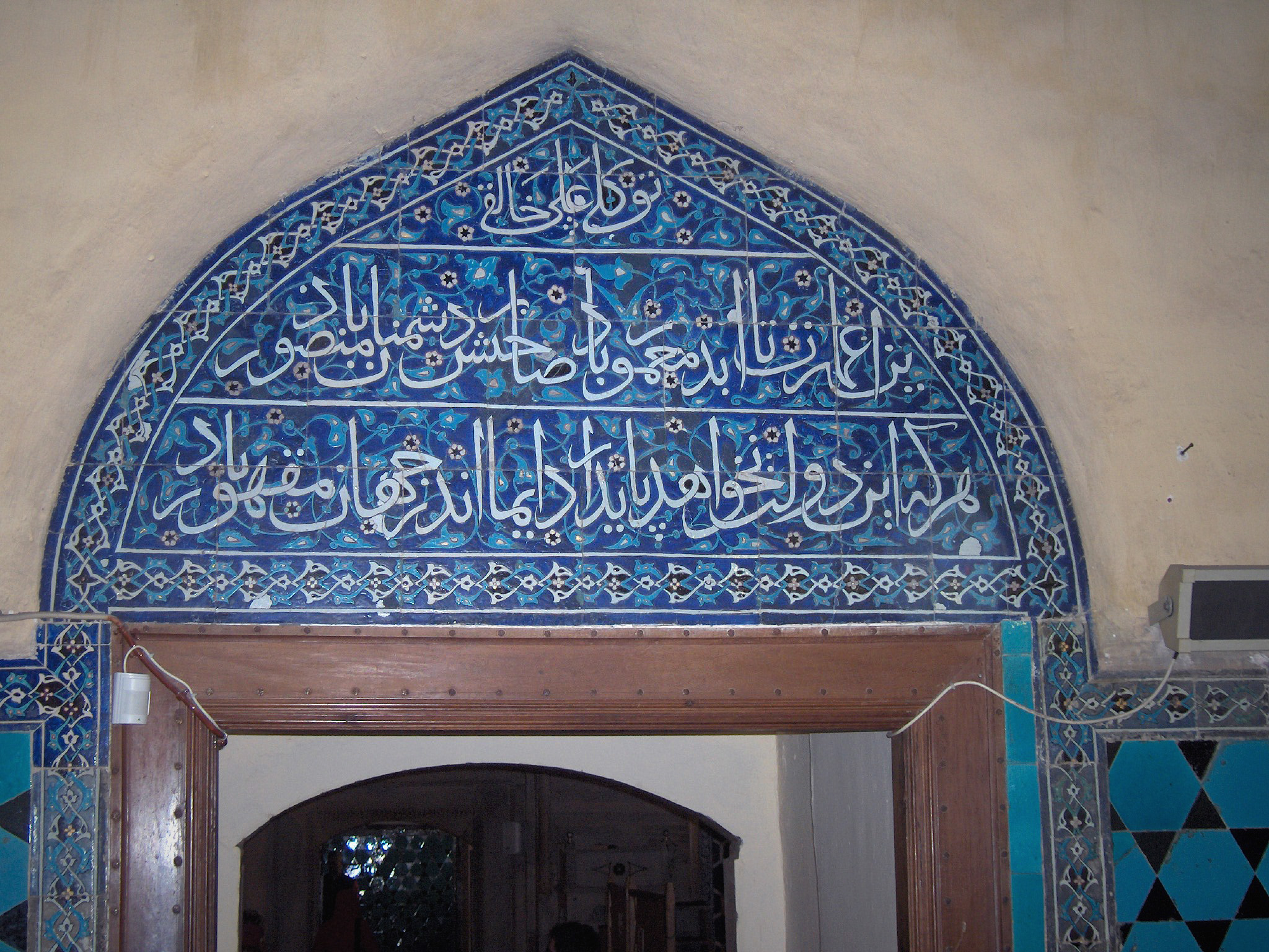 Interior view of the Yeşil Cami (Green mosque) of Bursa, Turkey